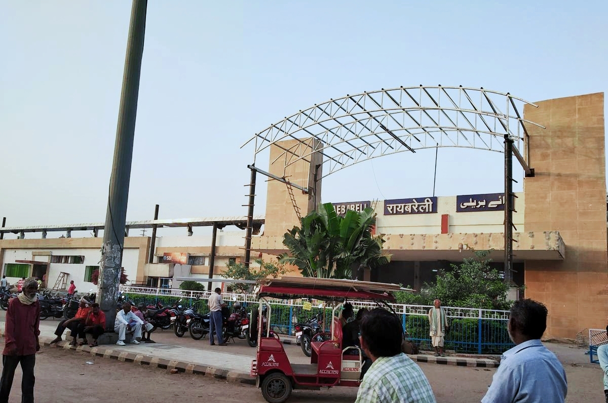 Depicted place: Rae Bareli Junction railway station